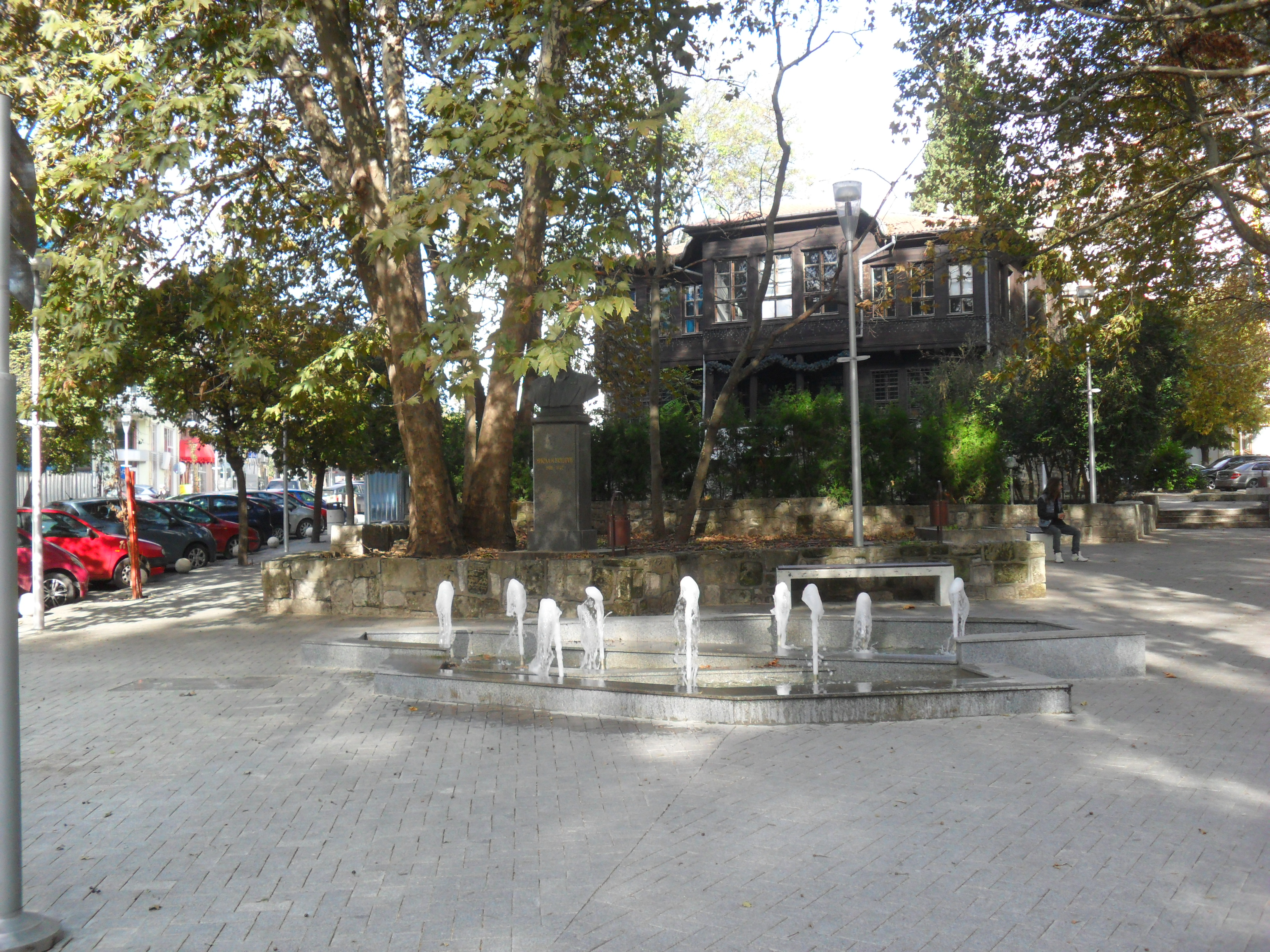 Varna,Bulgaria